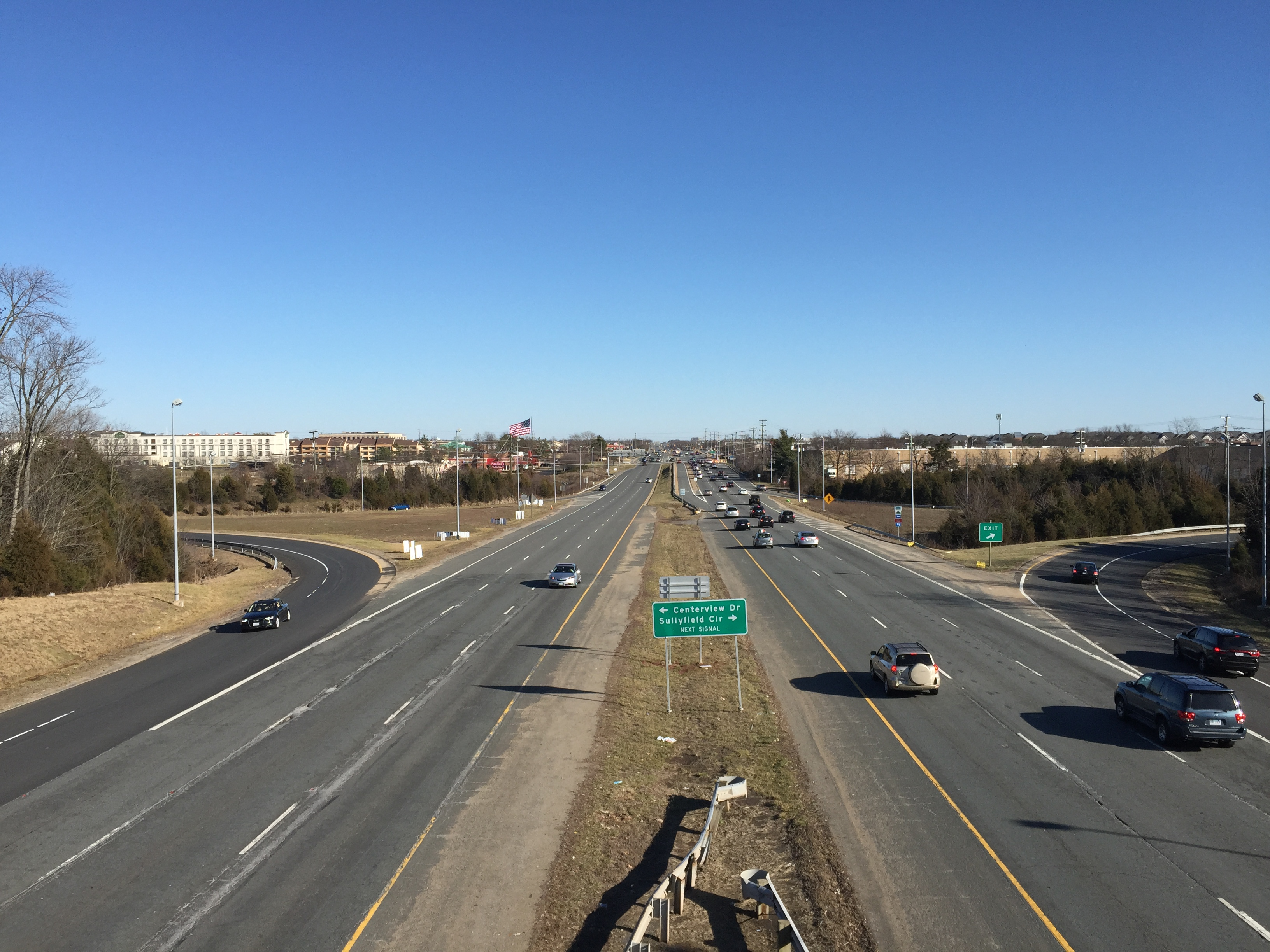 View east along Lee Jackson Memorial Highway (U.S. Route 50) from Sully Road (Virginia State Route 28) in Chantilly, Virginia